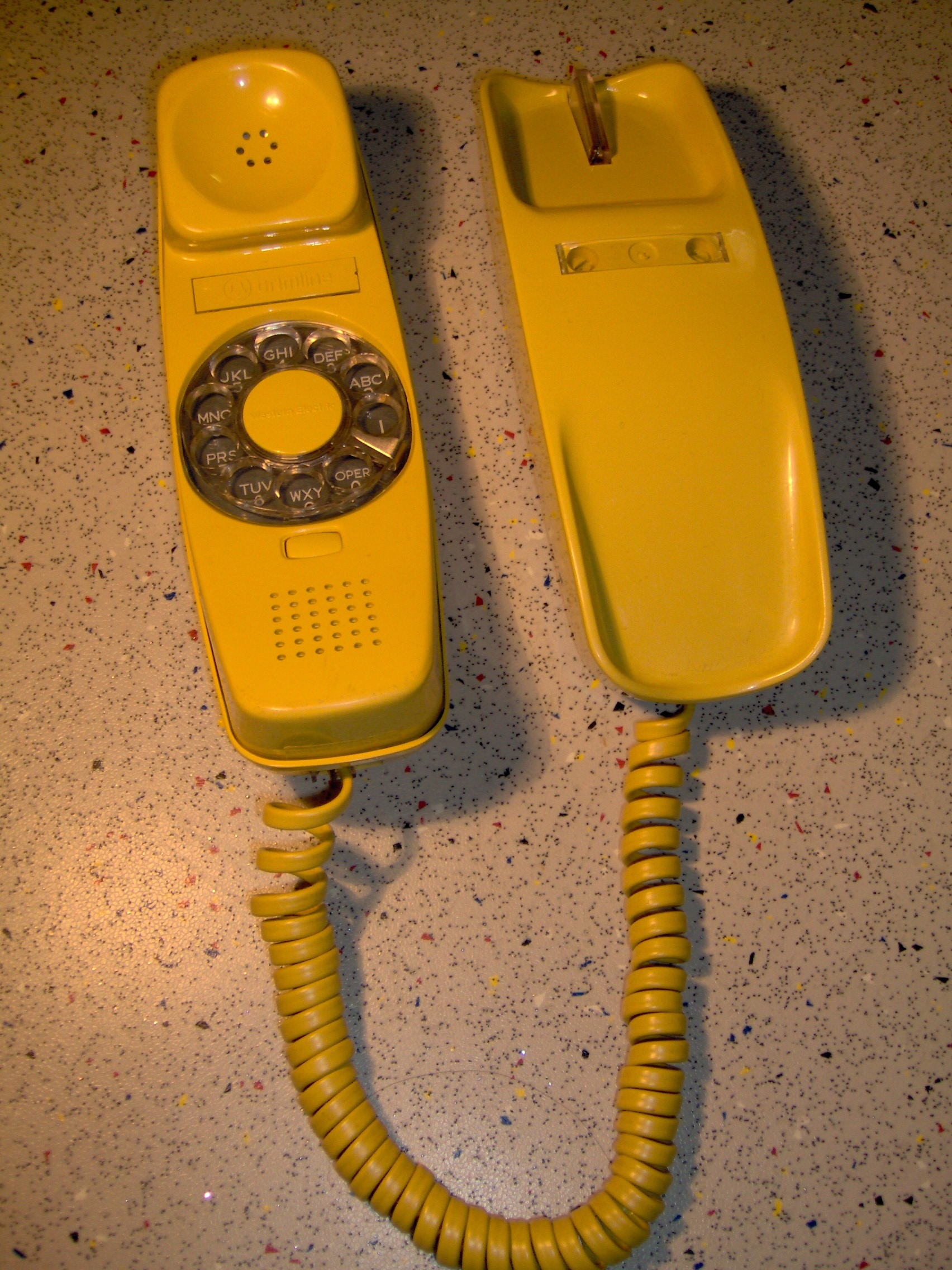 A Western Electric Trimline dieal phone. Self made.